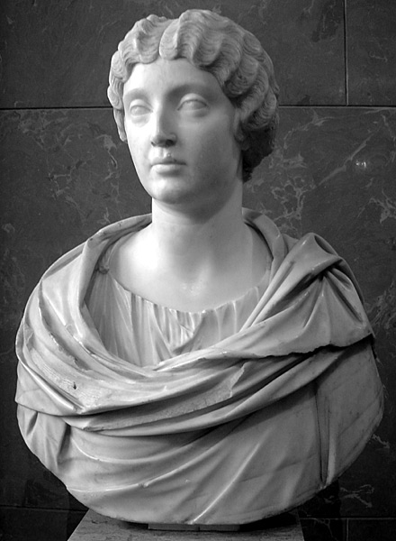 Faustina the Younger (130–175 AD). Marble, ca. 161 AD. From the area of Tivoli.